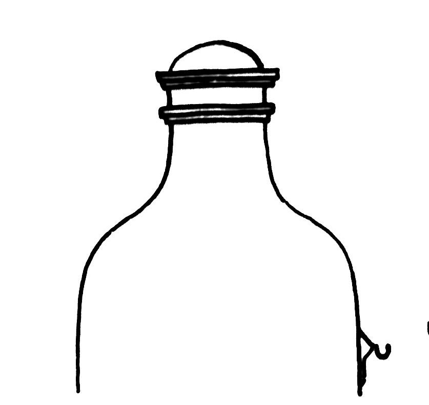 Paul Sültenfuß (1872-1937), Das Düsseldorfer Wohnhaus bis zur Mitte des 19. Jahrhunderts, (Diss. TH Aachen), 1922, Friedrichsplatz Nr. 7.jpg